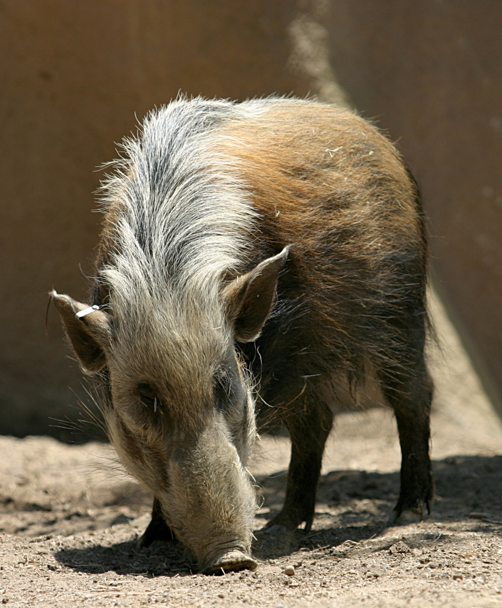 A Southern Bush Pig (Potamochoerus larvatus koirpotamu) at the San Diego Zoo in San Diego, California, USA.